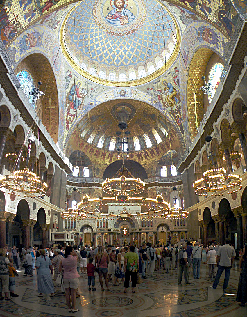 Interiour of Marine Nicolaus kathedral in Kronstadt